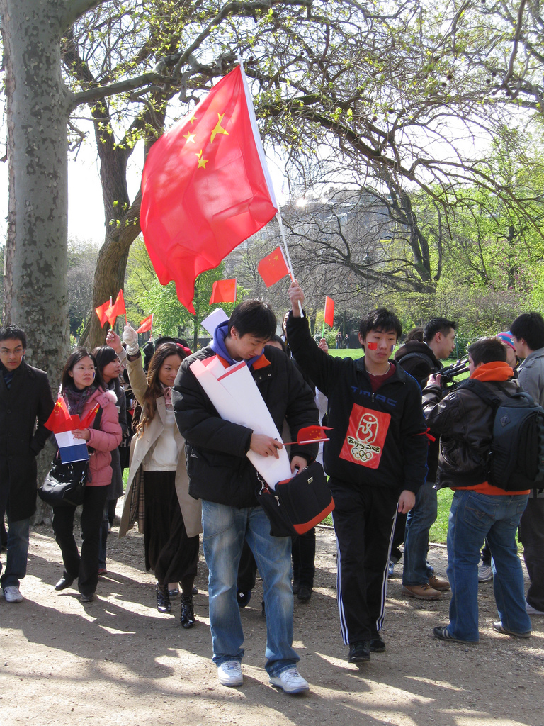 Near the Eiffel Tower in Paris, young Chinese coming to be at the Olympic torch relay on April 7, 2008